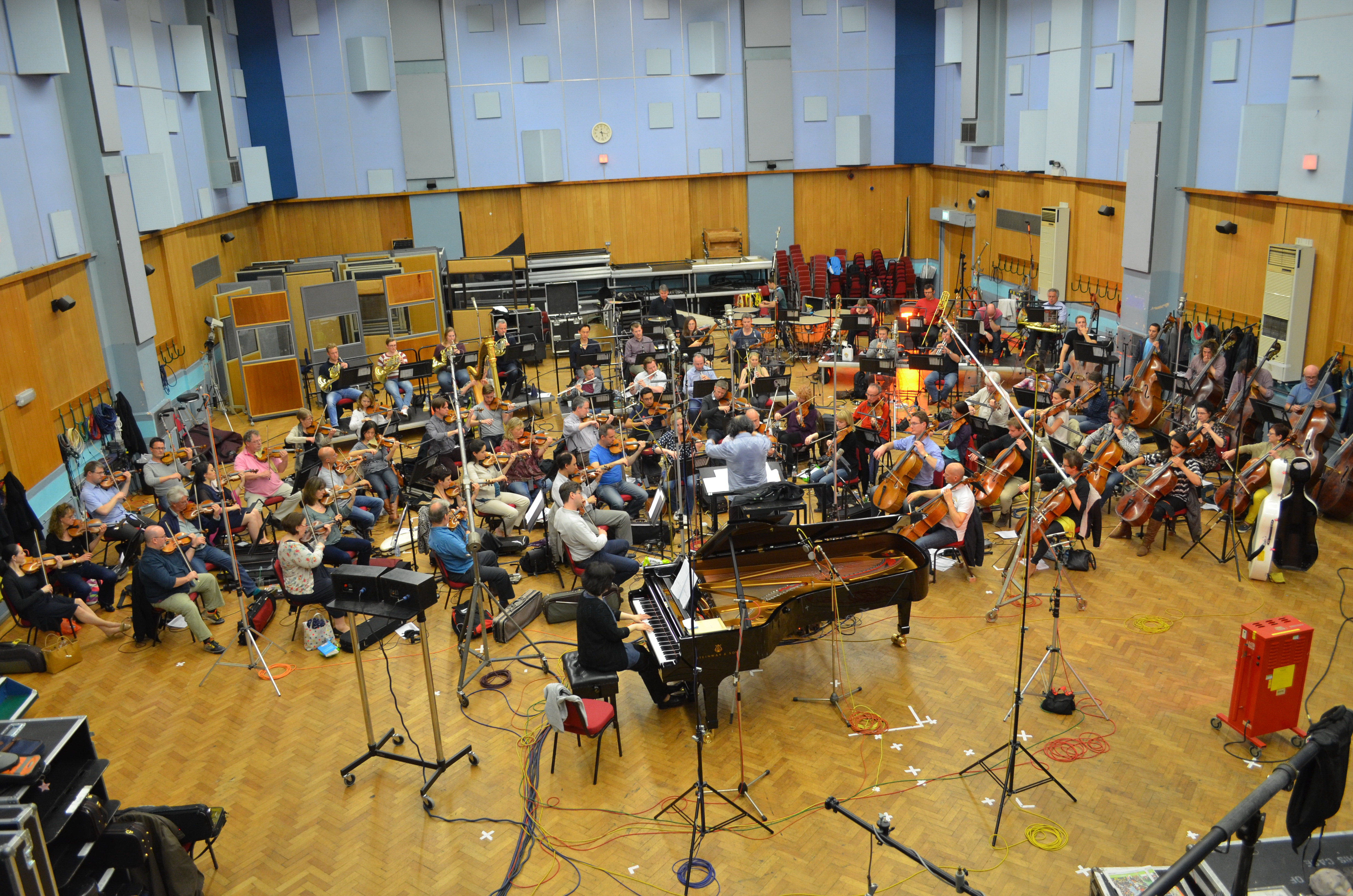 Recording at Abbey Road Studio London